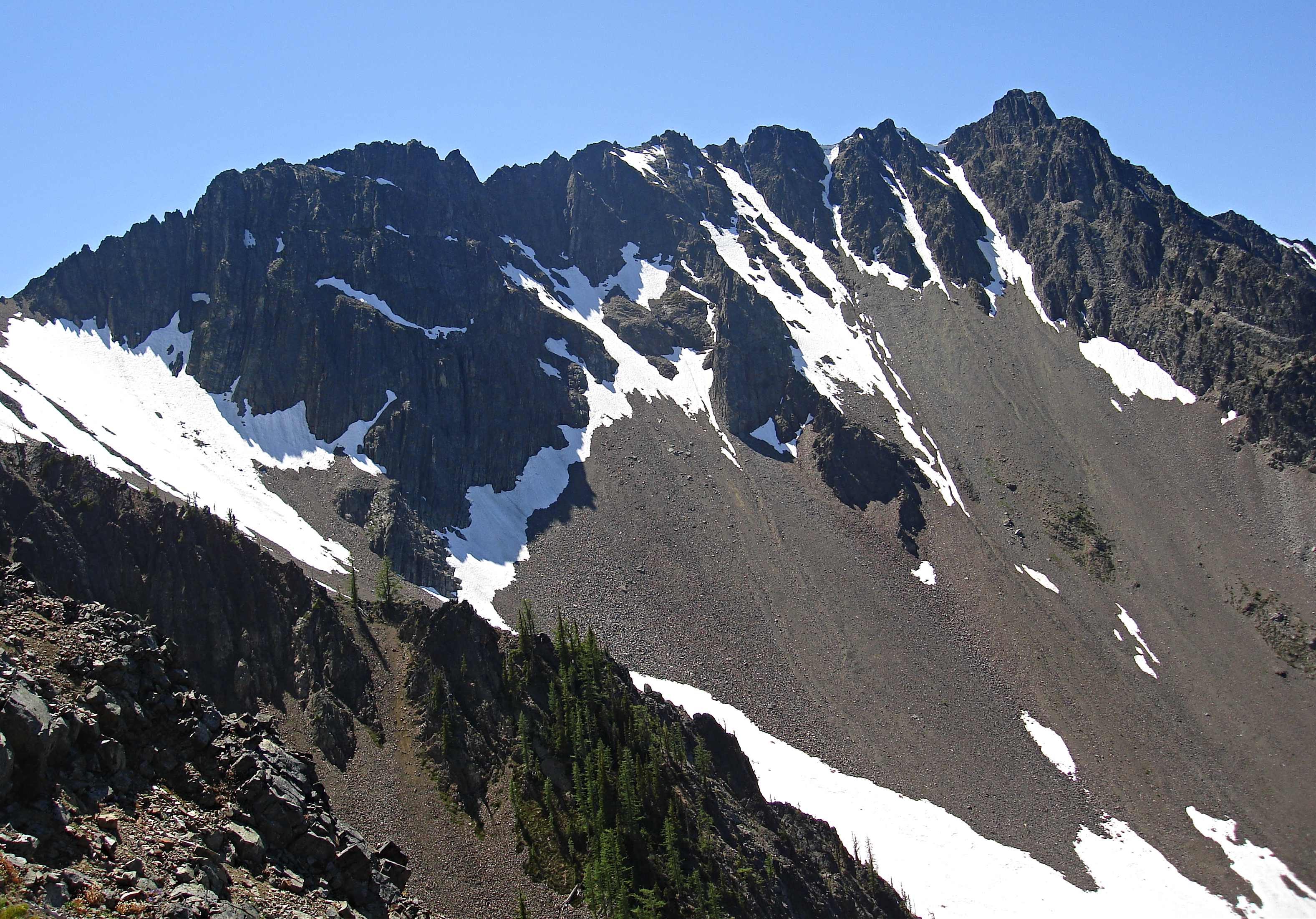 Frosty Mountain true west summit